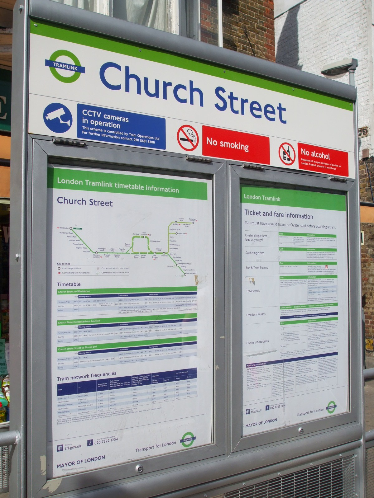 Church Street tram stop platform signage and information signage